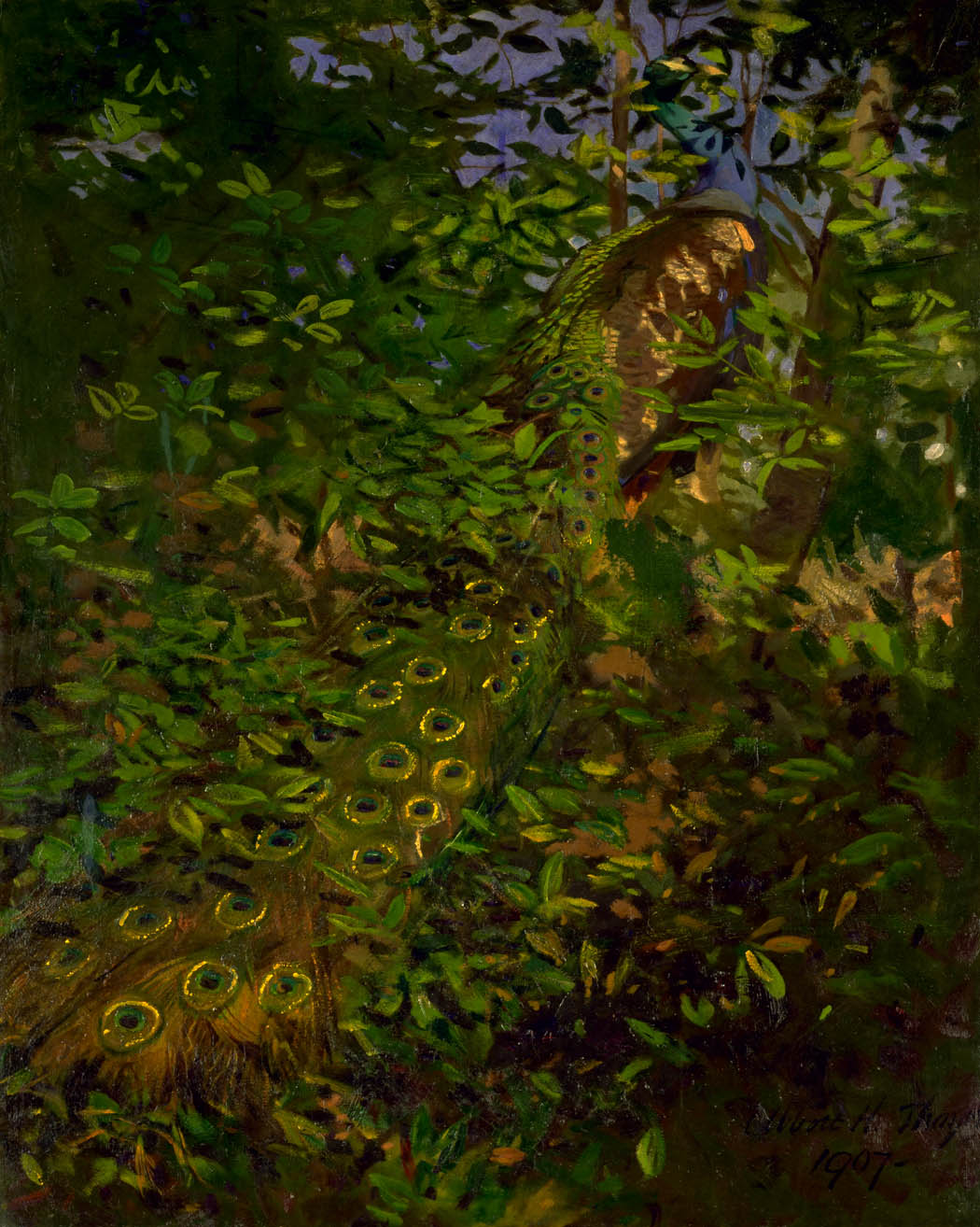 Peacock in the Woods - 1907, Painting by Abbott Handerson Thayer (August 12, 1849 – May 29, 1921)